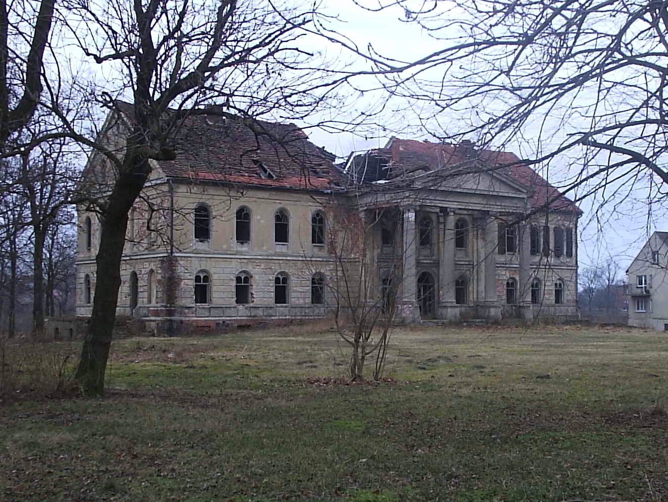 Palace in Kromolice, Poland